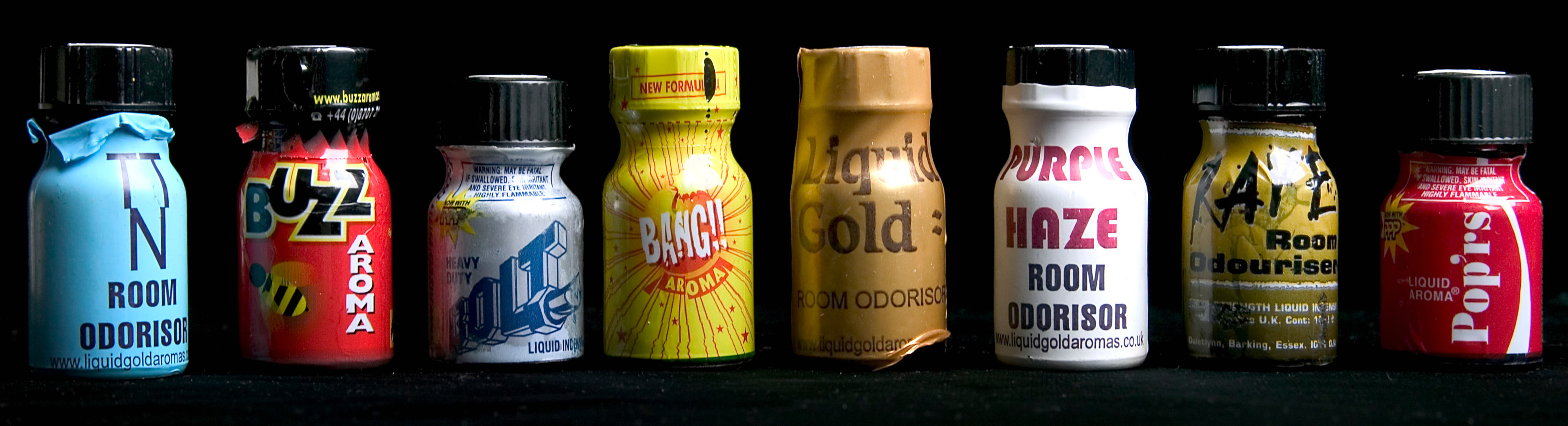 Photo of poppers.